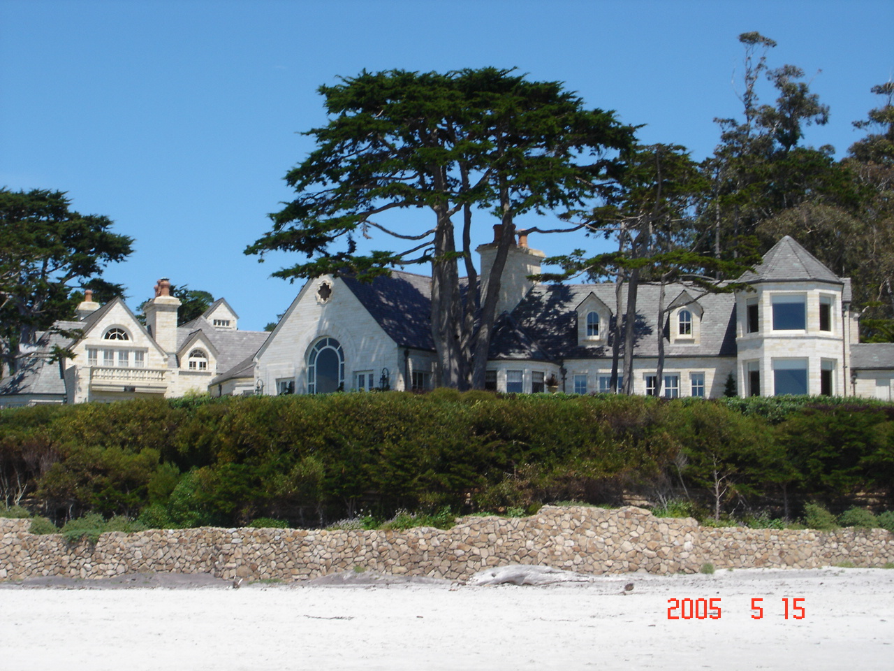 An extravagant mansion in Carmel, CA. I shot the picture myself.